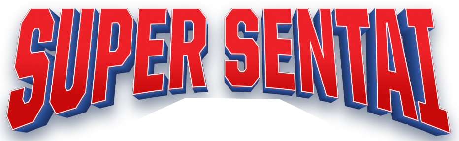 Official Super Sentai logo for the North American DVDs by Shout! Factory